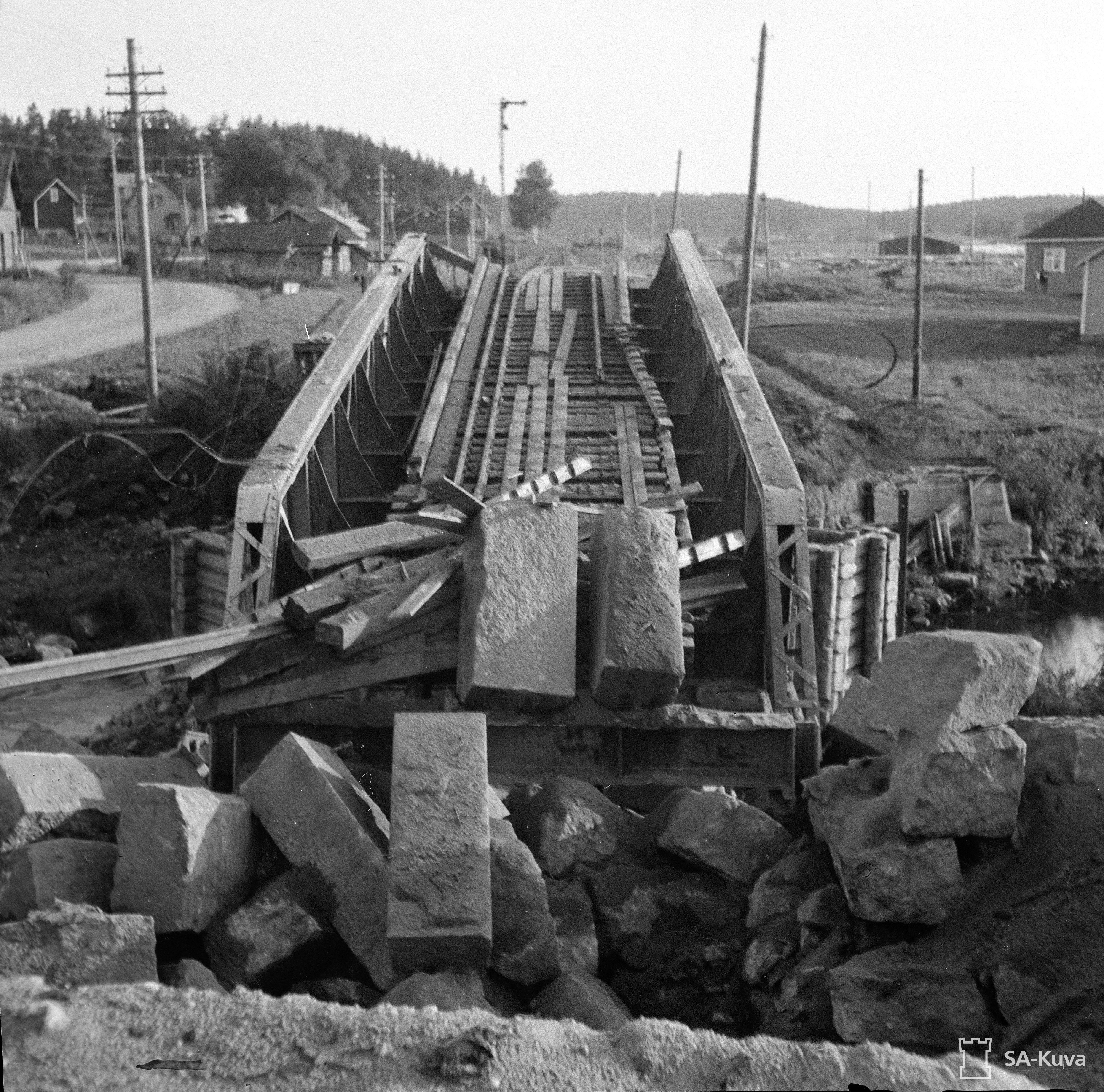 Ryssien räjäyttämä Sairalan rautatiesilta.